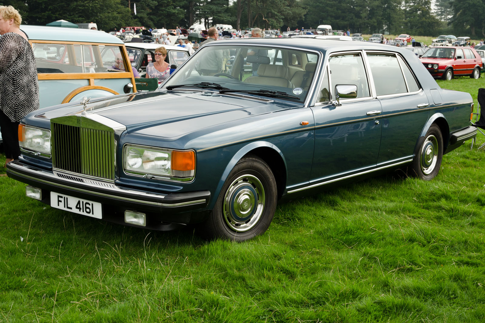 Capesthorne Hall Classic Car Show 25/08/2013